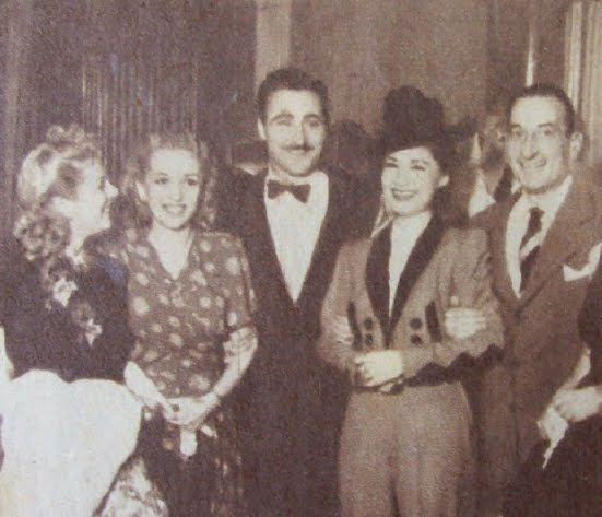 Jorge Lanza y Fidel Pintos- actores